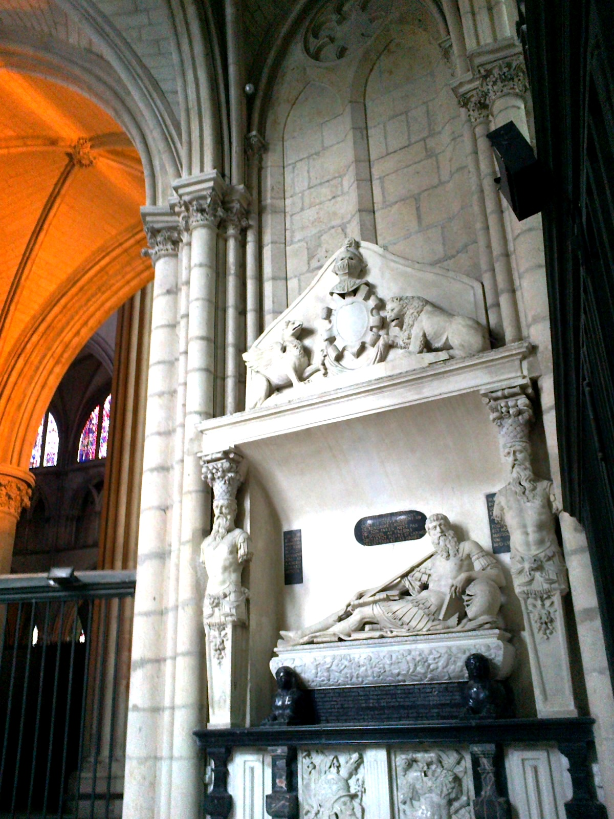 Sarthe Le Mans Cathedrale Saint-Julien Chapelle Des Fonts Tombeau Du Bellay 17052012